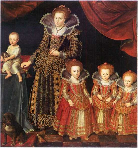 The little boy on the left is her son Valdemar Christian. Far right among the three girls that are replicas of their mother, between them Leonora Christina, later married to chamberlain Count Corfitz Ulfeldt.